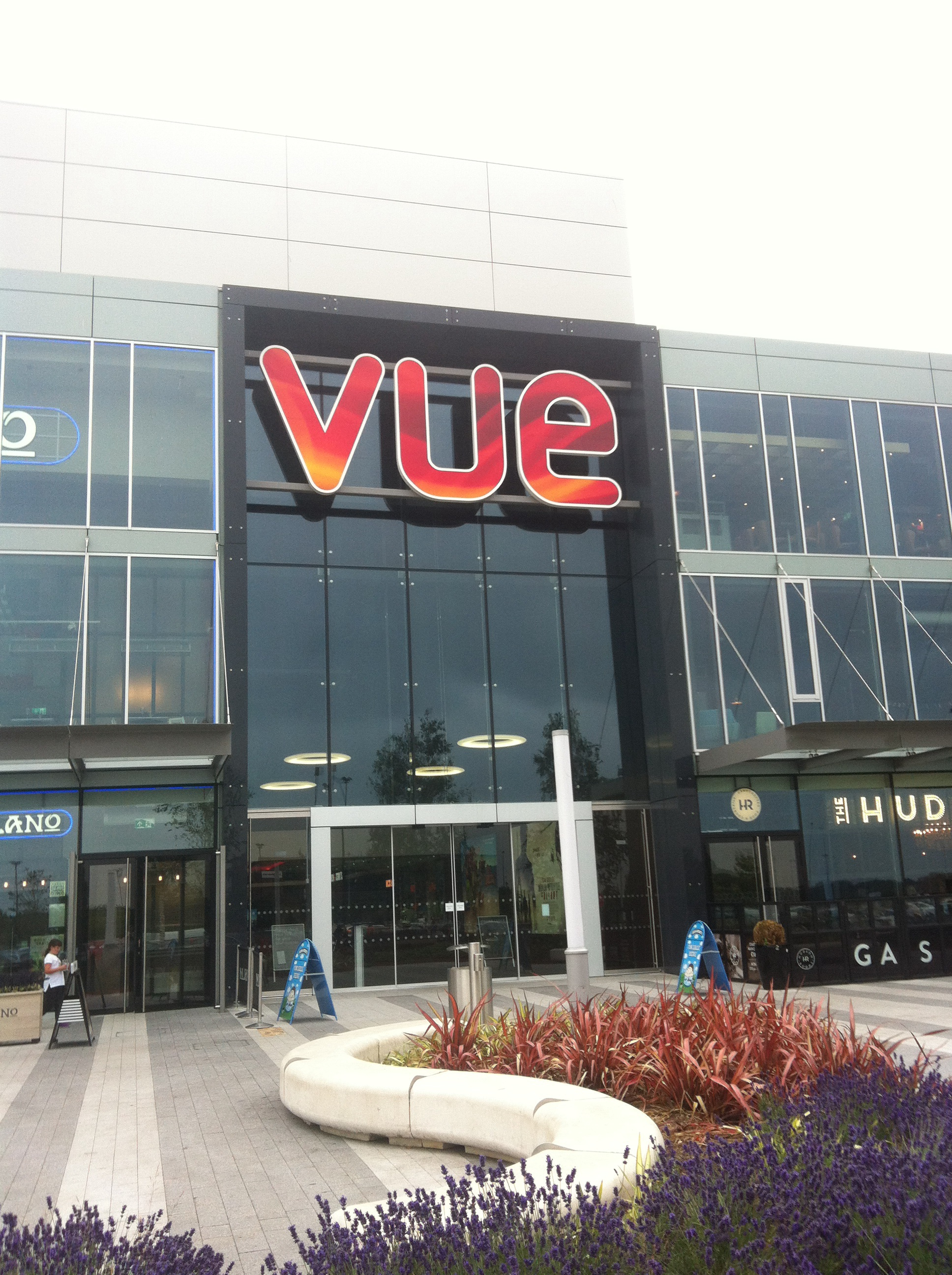 This is an image of the front promenade of the renovated Liffey Valley Shopping Centre in Ireland